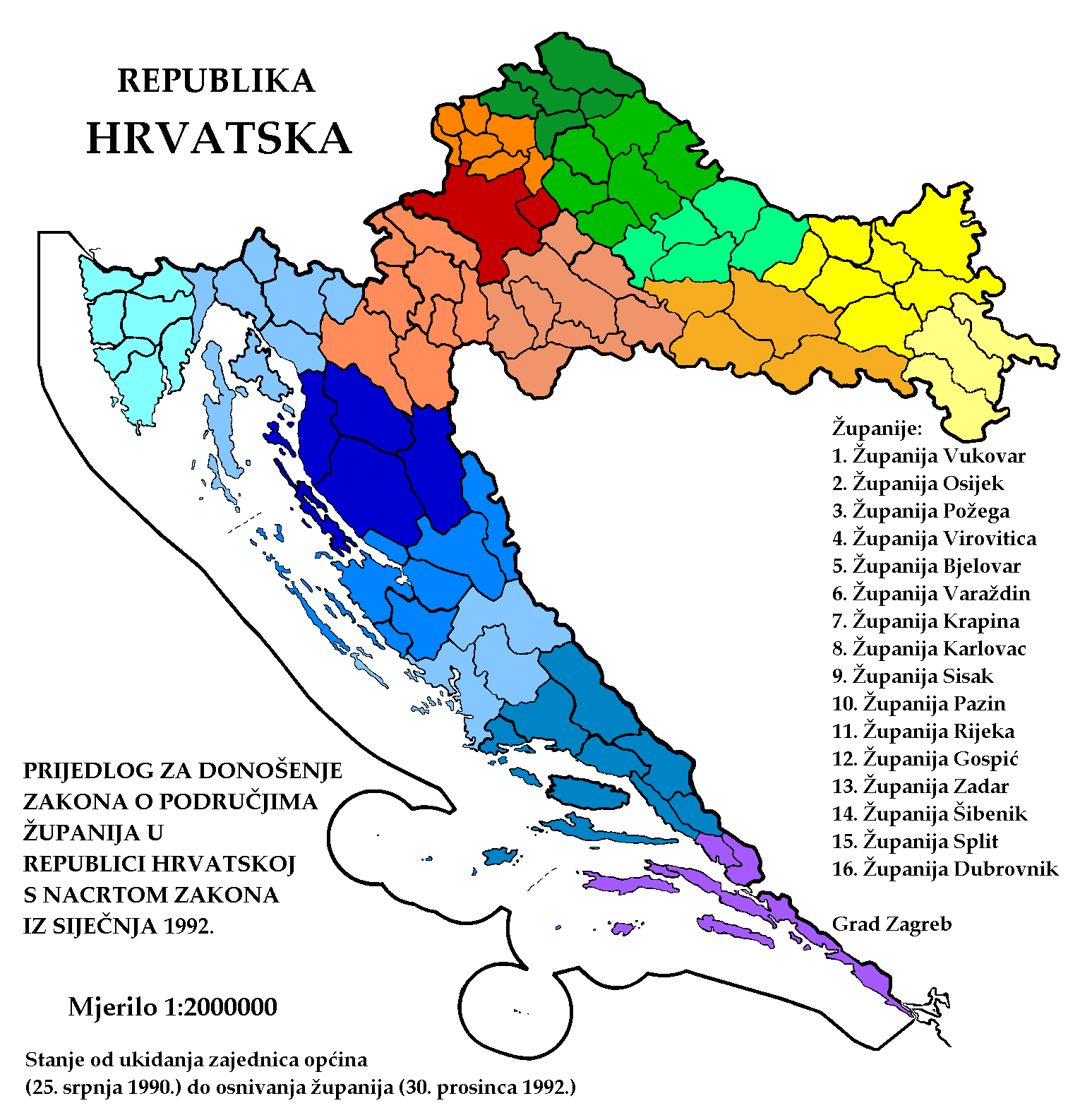 Croatia: Suggestion of the teritorial organization of counties from 1992-01-31, never took place